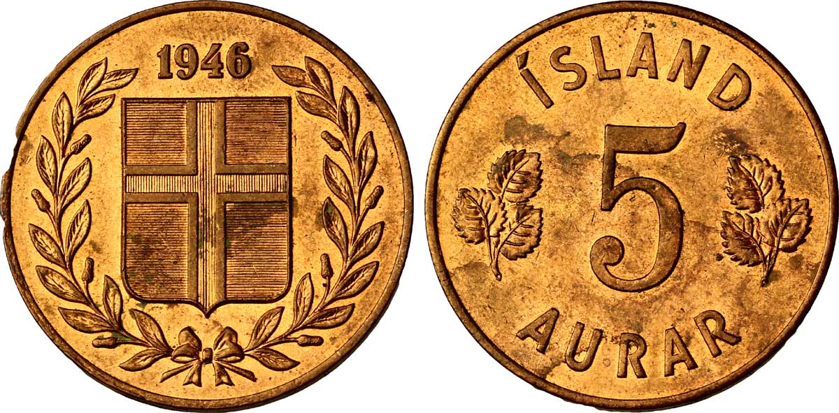 Islande, 5 Aurar représentant le blason de l'Islande